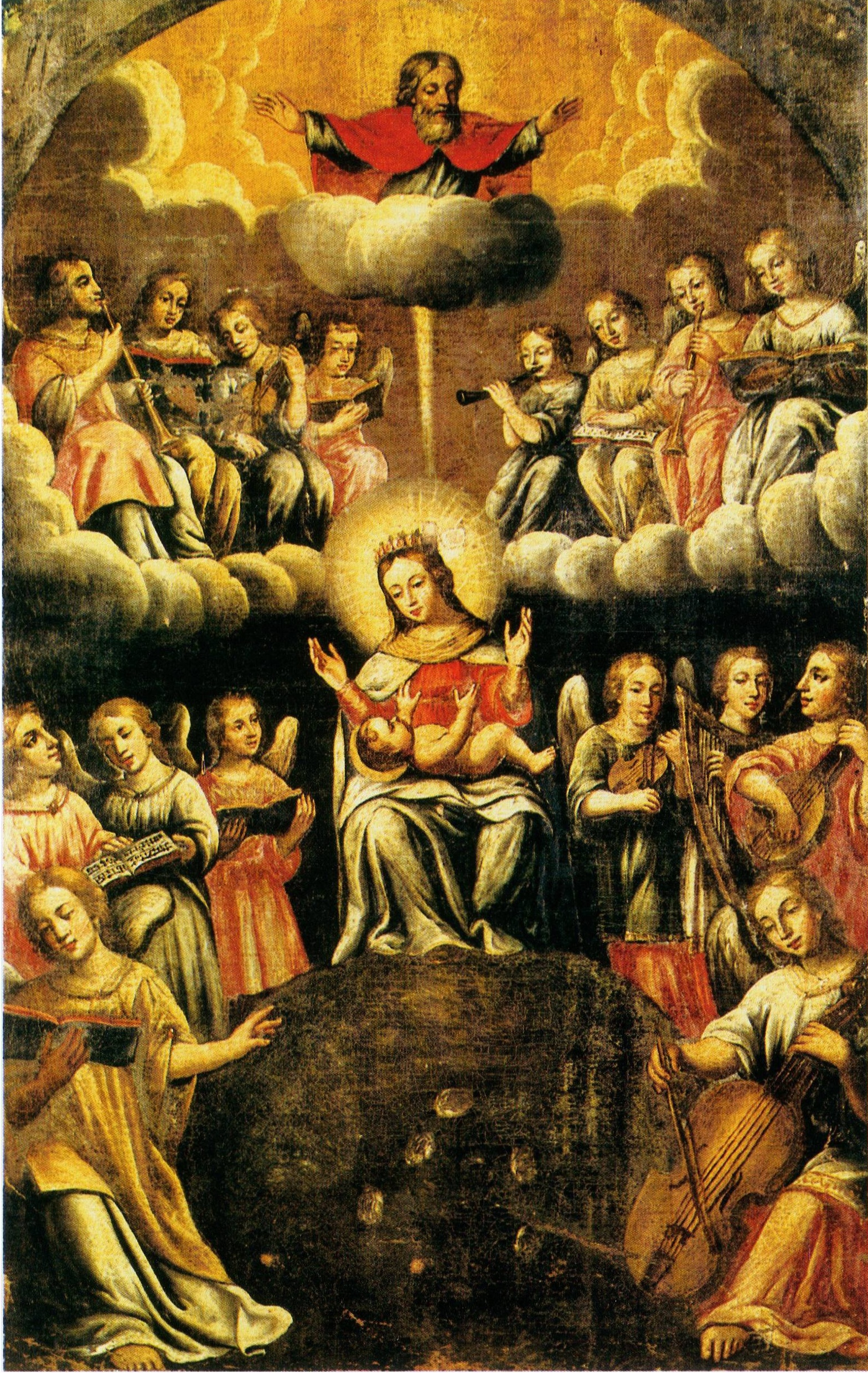 THE HOLY VIRGIN AND ANGELS. Early 18th c. Canvas, oil. 137x86. St. Peter and Paul's Church, Garadzishcha, Kamianiets district, Brest region. Restoration - V. Nikitin, A. Putintsev.